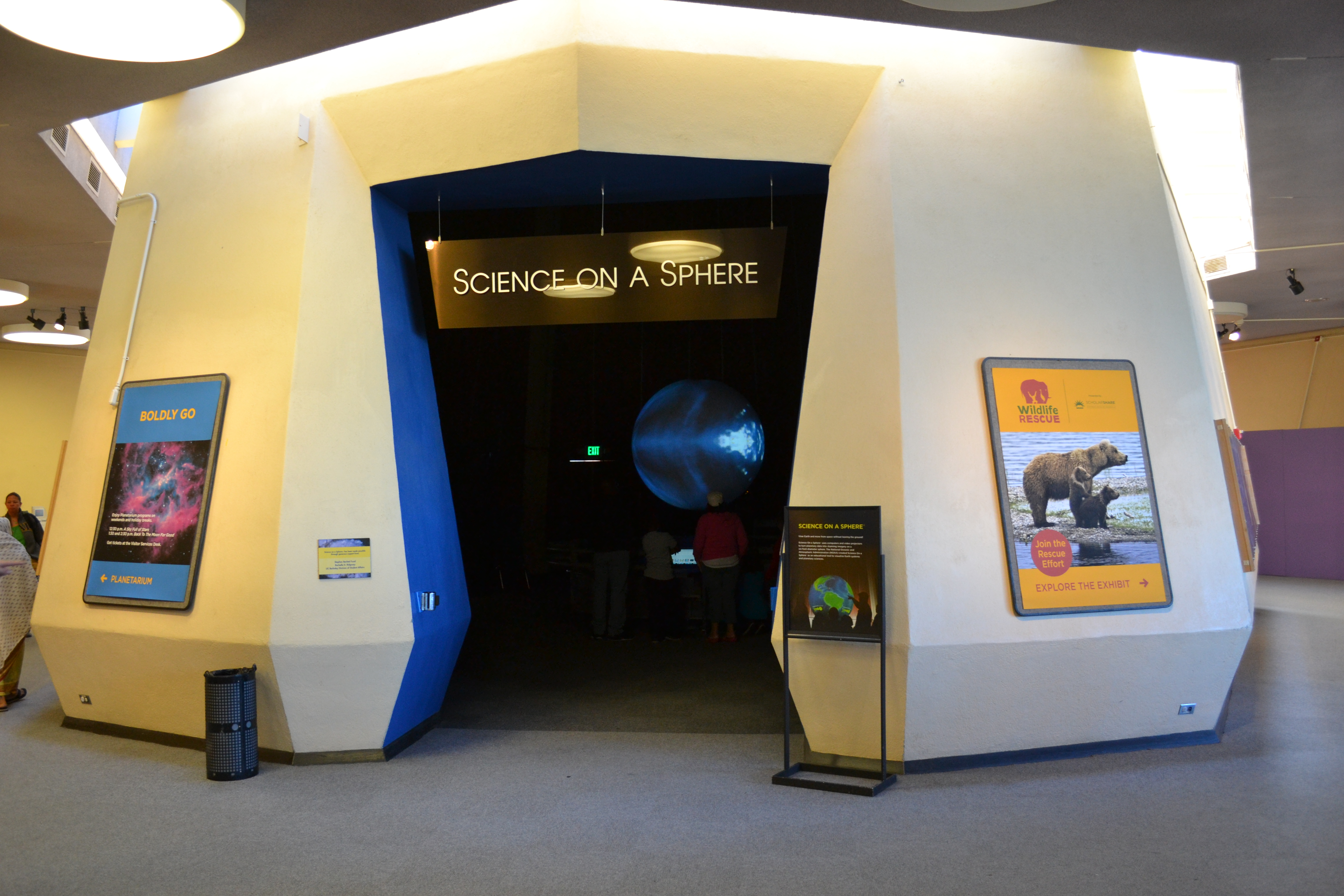 Science on a Sphere exhibit at Lawrence Hall of Science